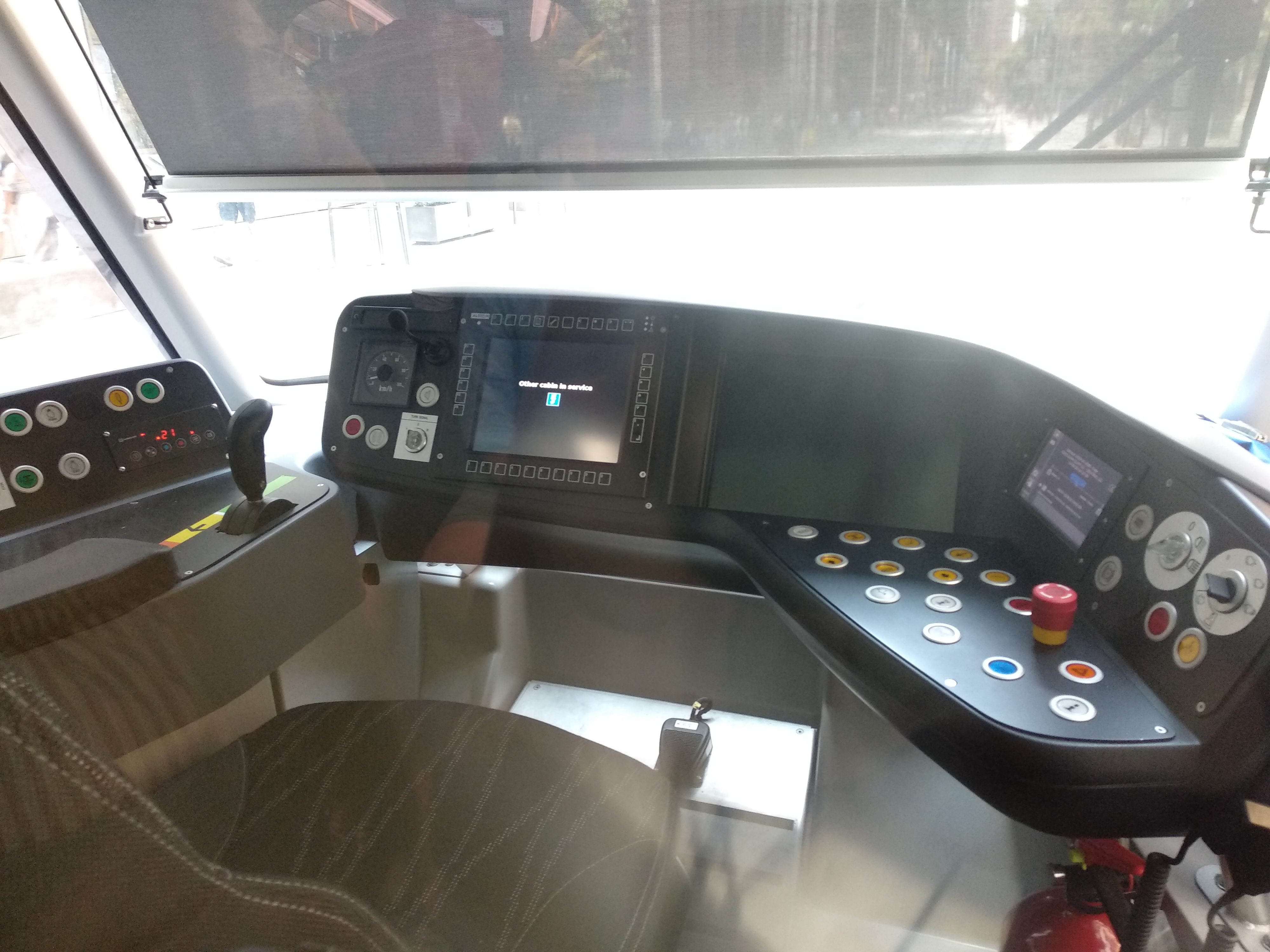 the cockpit of a Transdev Urbos 3